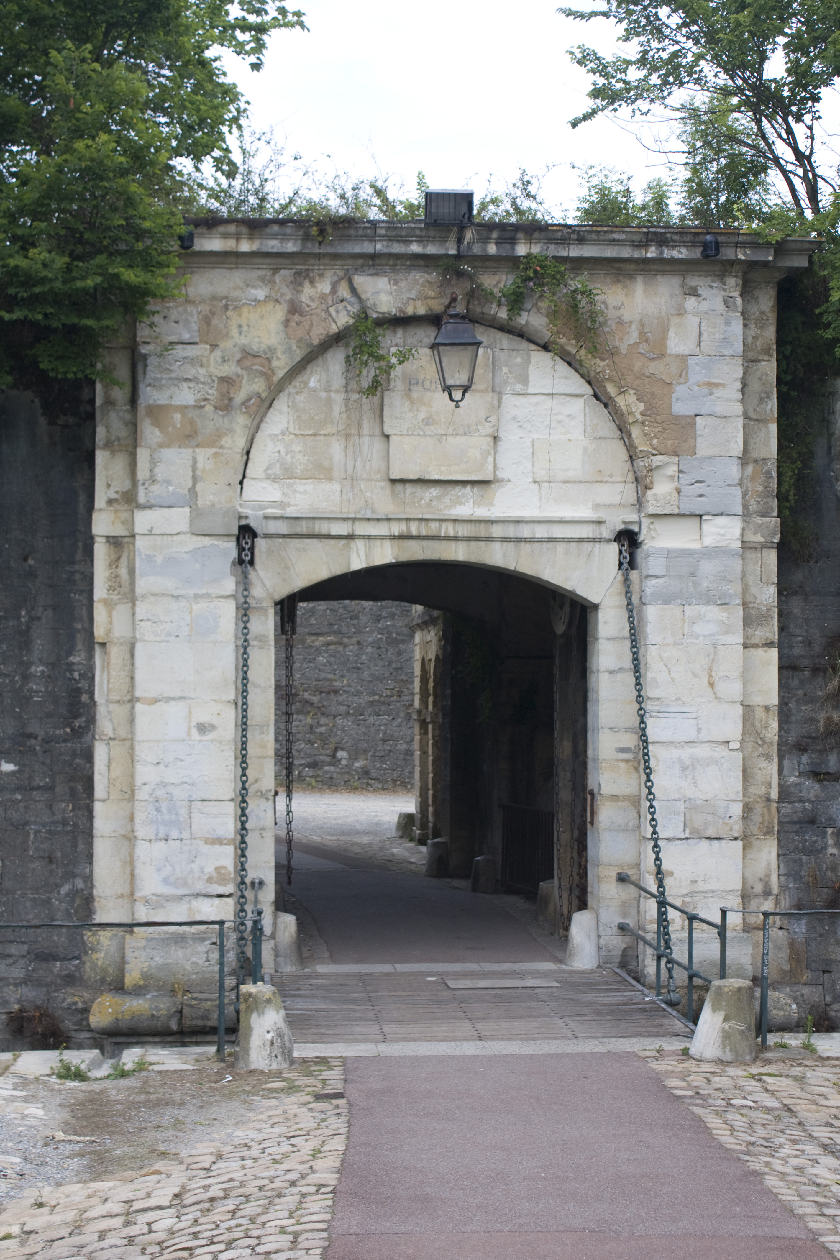 Drawbridge to the inner door of the barbican.